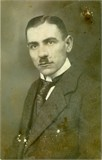 Portrait of Gustav Adolf Wohlgemuth